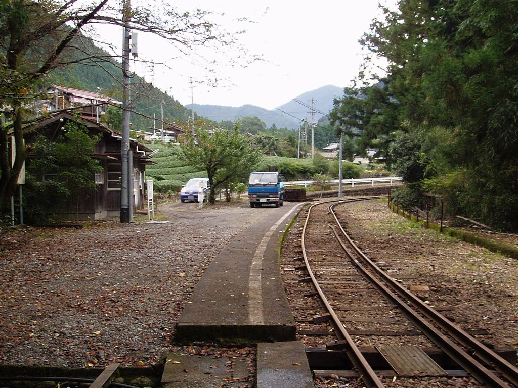 Inside of Sawama Sta.